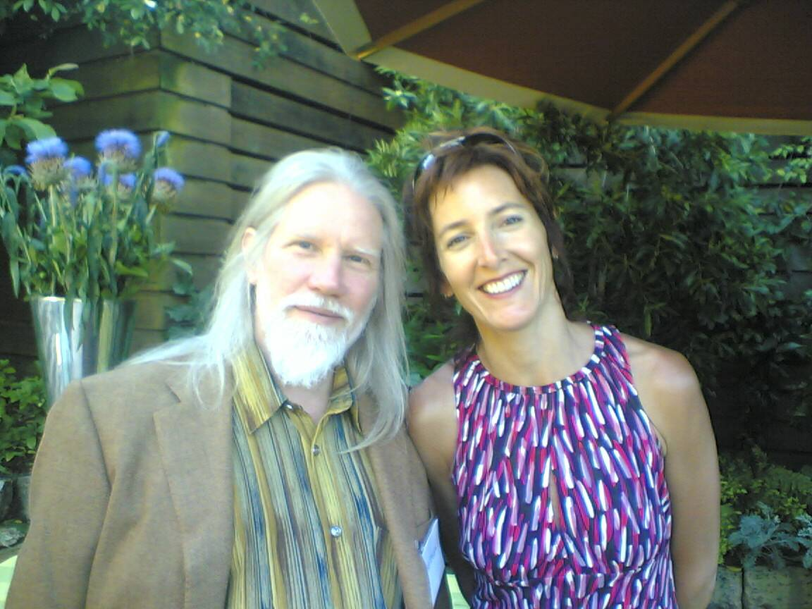 Whitfield Diffie and Jane Metcalfe. Both work in the tech industry.